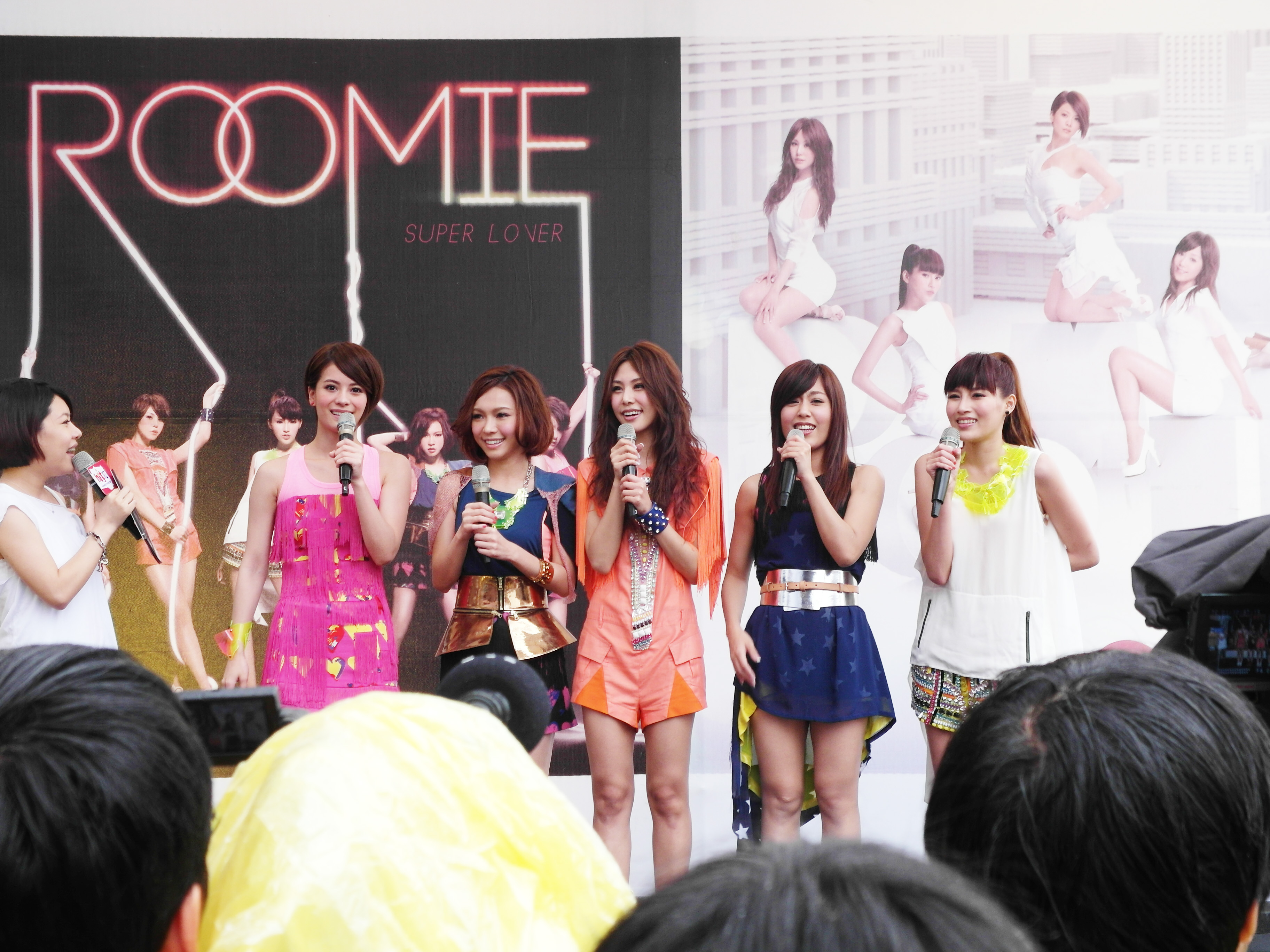 Taiwanese girl group "Roomie" at their autograph session for their first mini album "Super Lover" in Taipei.